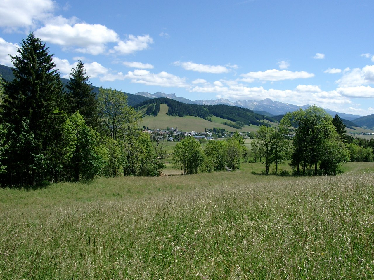 Autrans (Isère, Rhône-Alpes, France) : Summertime scenery.